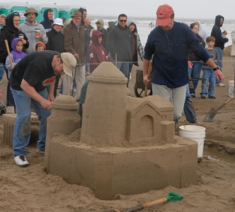 sandcastle